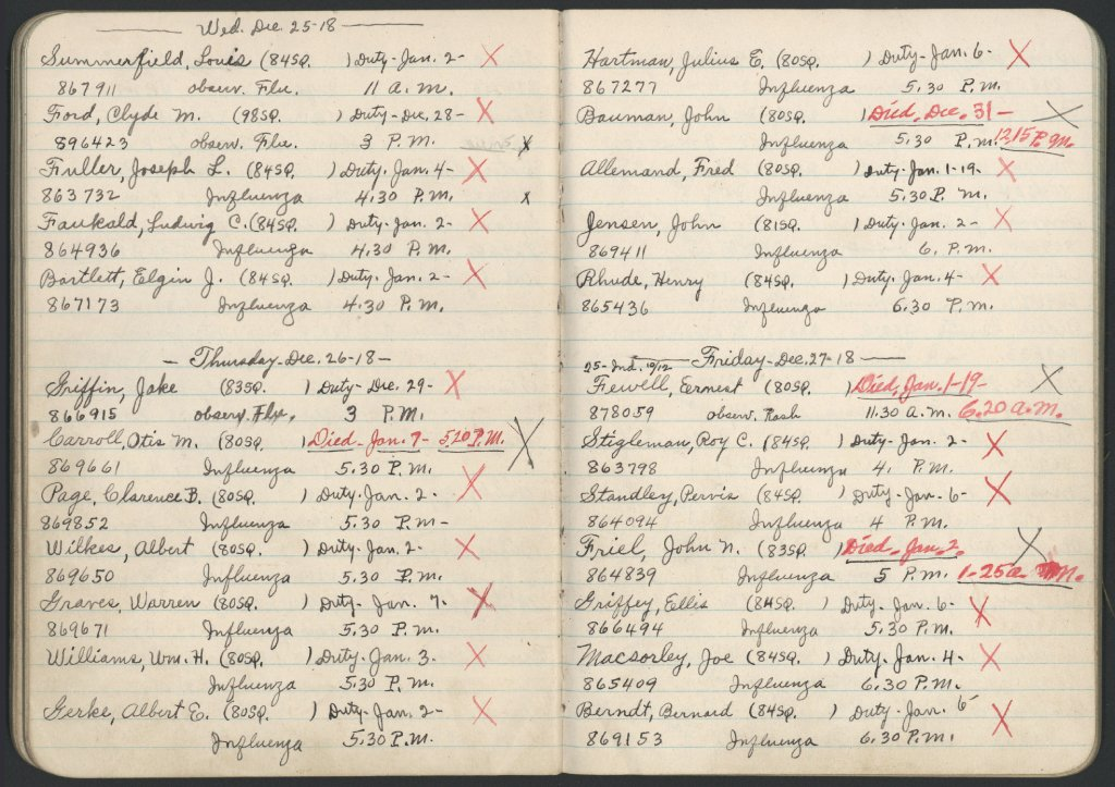 Record book of patients in South Beach, Washington hospital, 1918. Hospital staff hand wrote admissions daily to South Beach Hospital. The journal notes that six people were admitted on Christmas Day and that John N. Friel was admitted on December 27, 1918 at 5 pm and died on January 2, 1919 at 1:25 a.m.